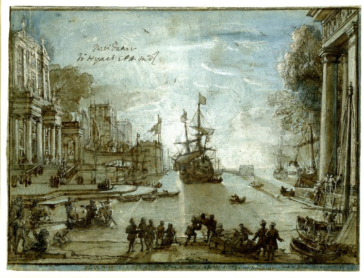 Page from the Liber Veritatis of Claude Lorrain